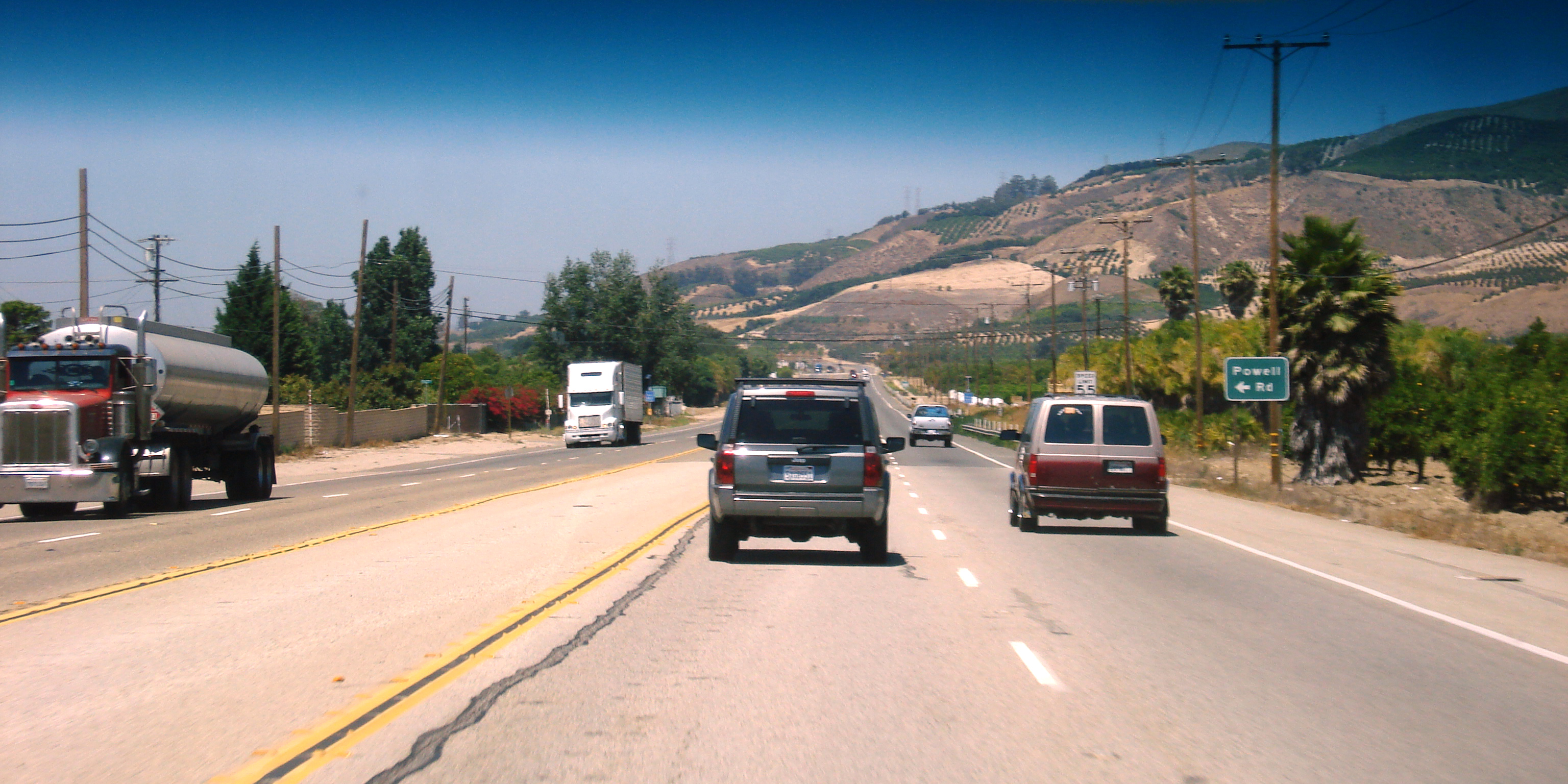 CA SR 126 outside Fillmore, CA